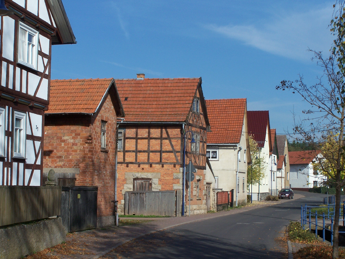 In the village Kupfersuhl.